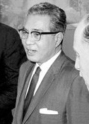 President John F. Kennedy gestures toward a small statue presented by Prince Norodom Sihanouk of Cambodia in the President’s Suite at the Carlyle Hotel, New York City, New York. (L-R) United States Ambassador to the United Nations Adlai Stevenson; Prince Sihanouk; President Kennedy; Foreign Affairs Minister for Cambodia Nhiek Tioulong; United States Ambassador to Cambodia William Trimble (partially hidden); John Steeves, Deputy Assistant Secretary of State for Far Eastern Affairs (back to camera); Ambassador of Cambodia Nong Kimny.